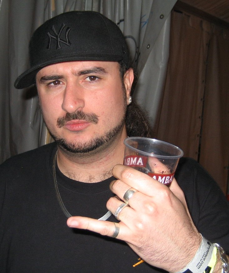 Hate is a spanish MC.